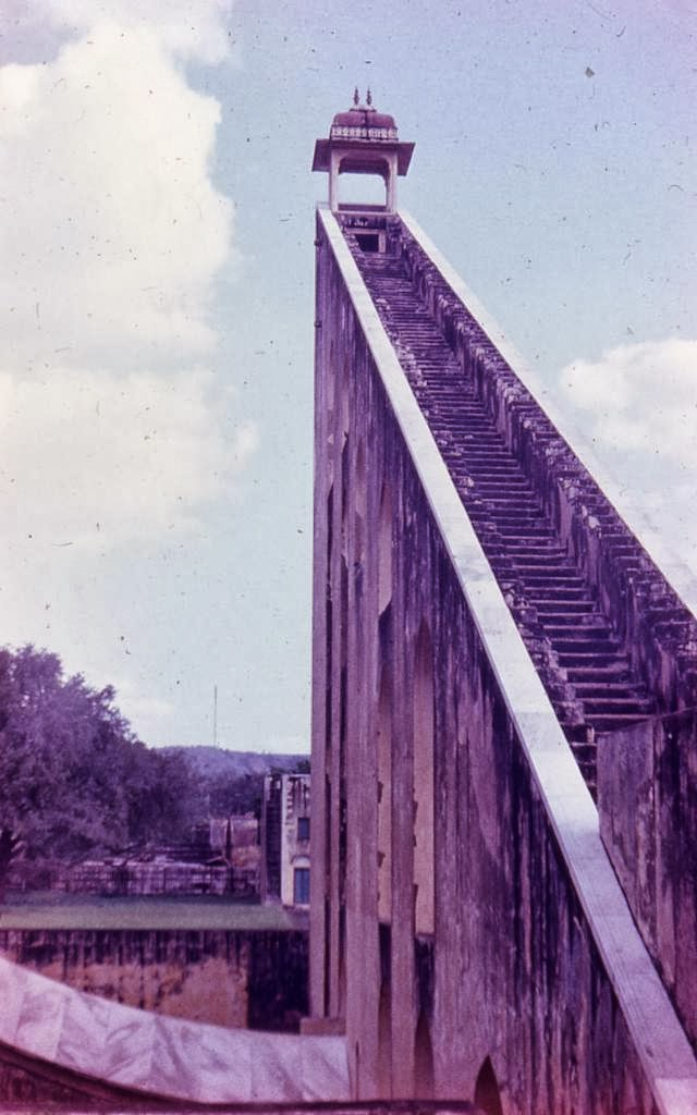 Ancient obesrvatory